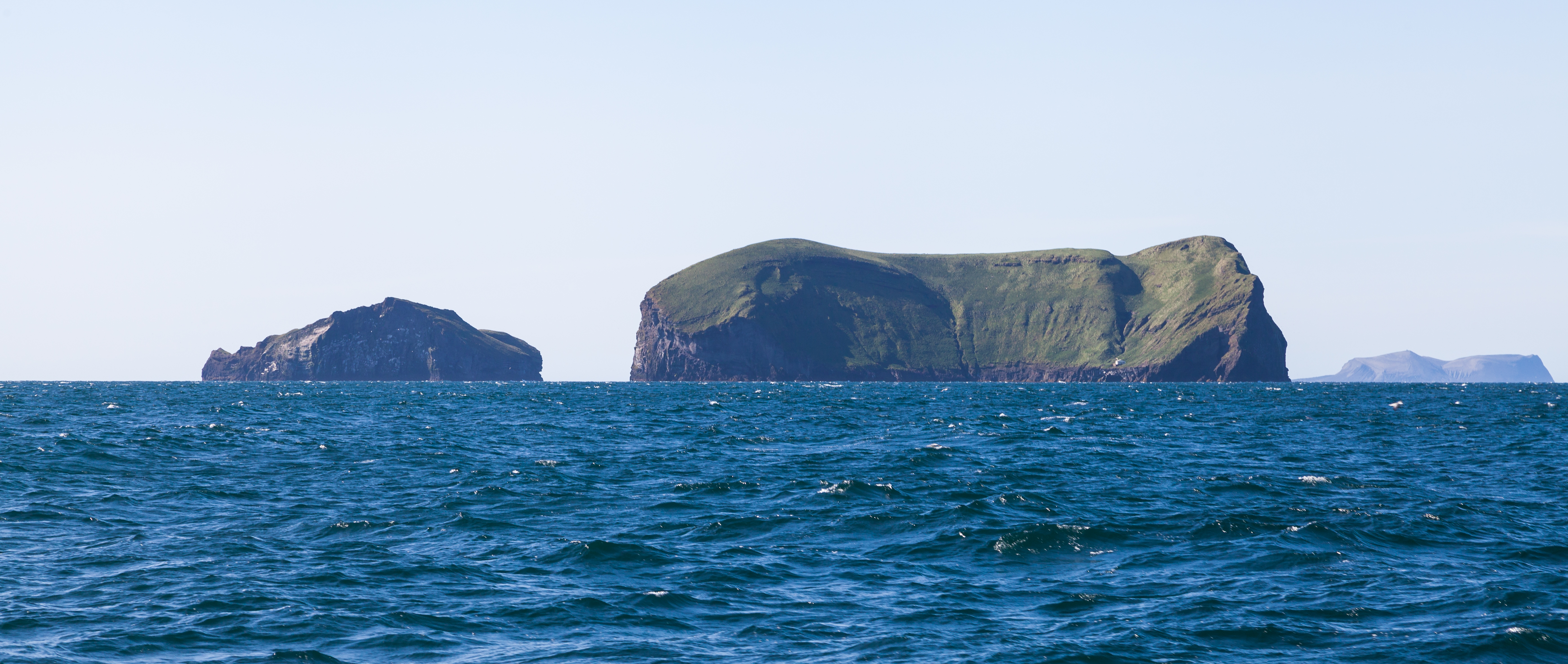 Brandur, Álsey and Surtsey islands, Westman Islands, Suðurland, Iceland